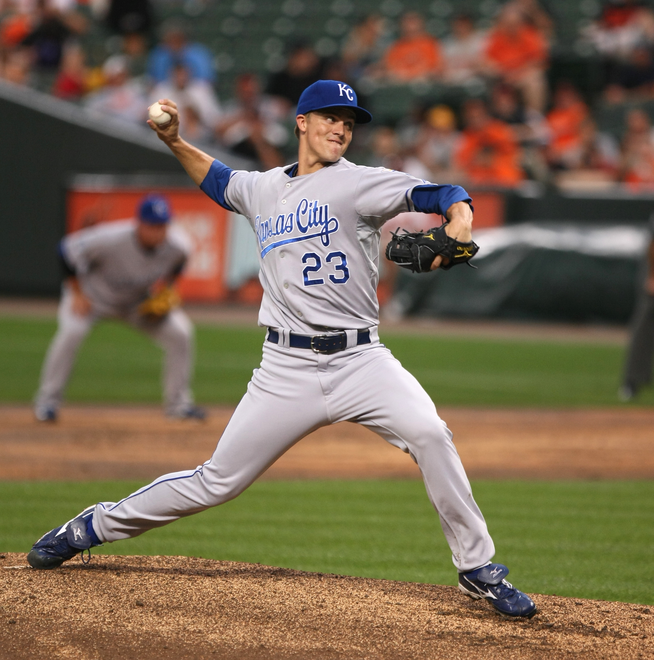 Donald Zackary "Zack" Greinke, an american Major League Baseball starting pitcher, delivers against the Baltimore Orioles in the first inning of a baseball game, Wednesday, July 29, 2009, in Baltimore.